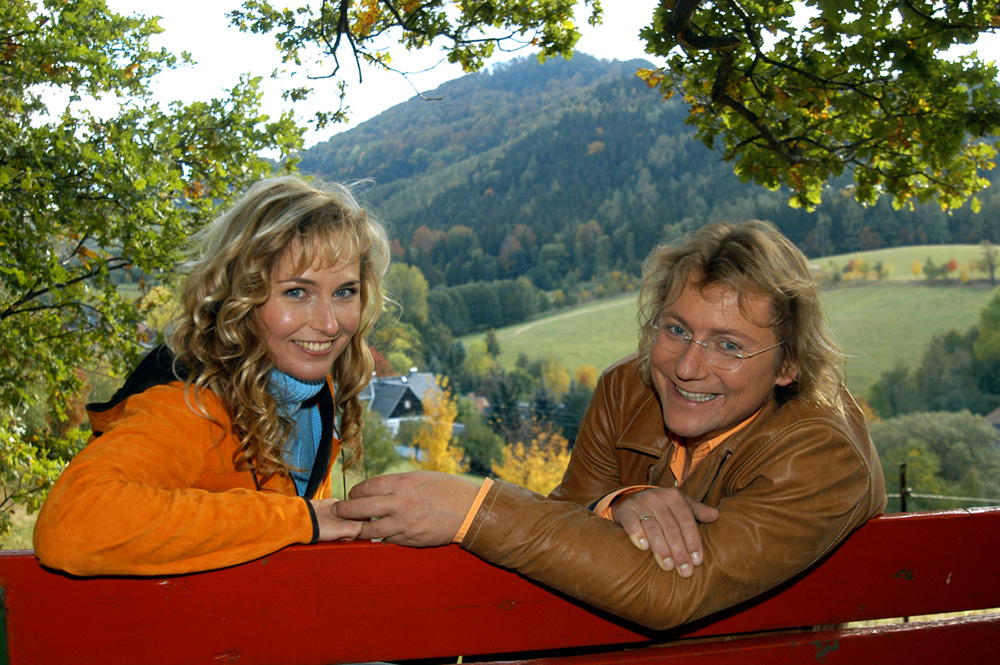 Kathrin & Peter vor dem Berg Lausche